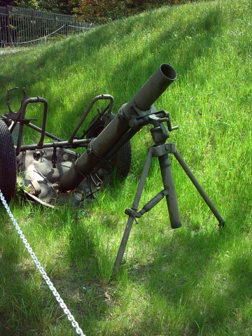 120 mm Soviet regimental mortar Model 1938/41